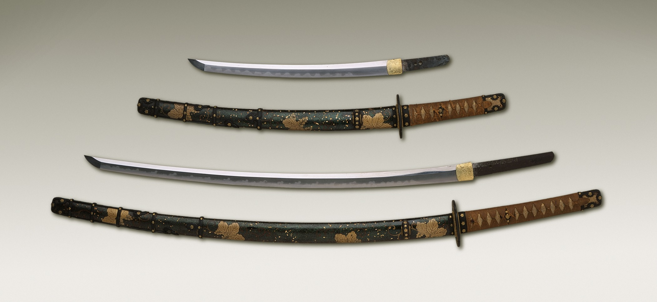 Japan, 18th-19th century Arms and Armor; swords Steel, copper, gold foil, lacquer on wood, shakudo, and silk Scabbard: 37 in. (93.98 cm), Blade: 32 3/8 in. (82.23cm) Given in memory of Mr. Sakujiro Kawaguchi by Kristine T. de Queiroz and Leo M. Sugano (AC1999.186.1.1-.16) Japanese Art